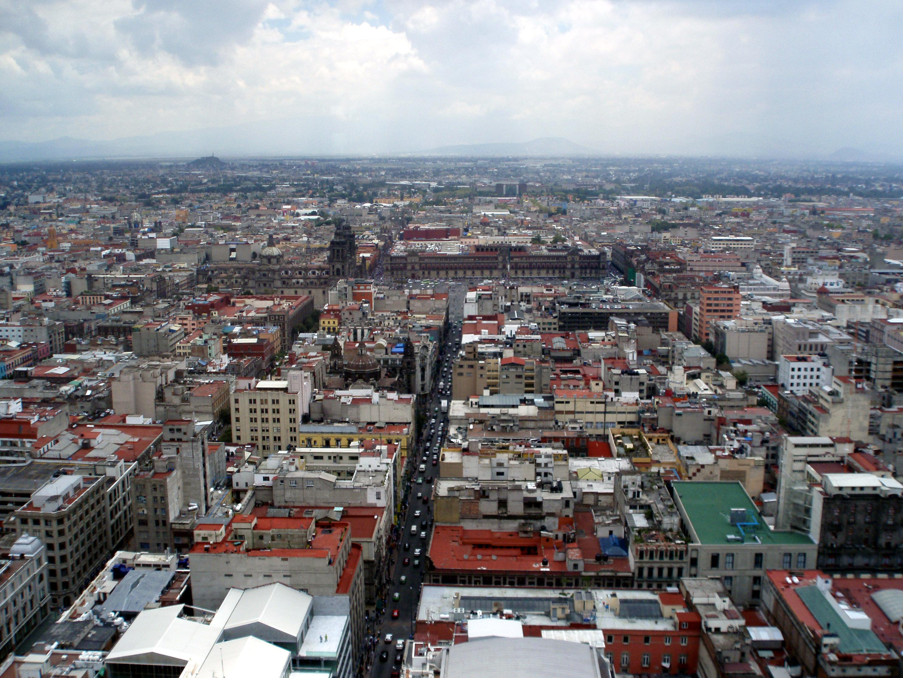 Mexico City seen from Torre Latinoamericana with Plaza de la Constitución in the centre